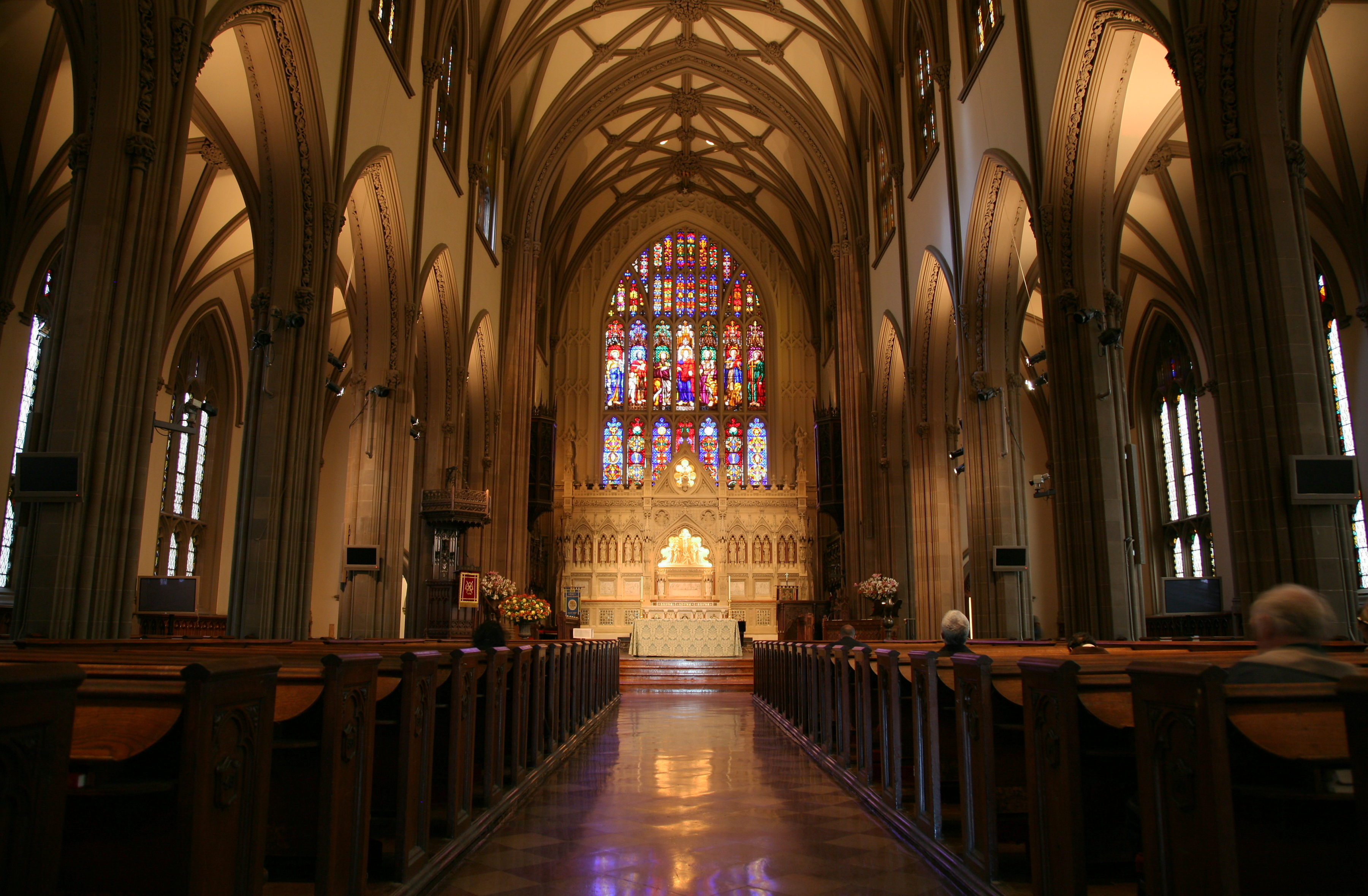 Trinity Church in Lower Manhattan